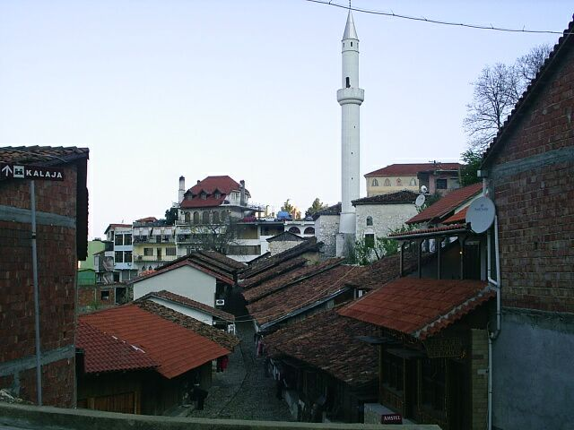 Town of Krujë, Albania